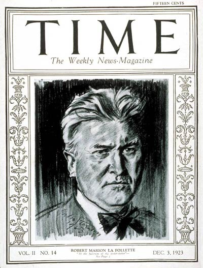 TIME Magazine Cover Featuring Robert M. La Follette